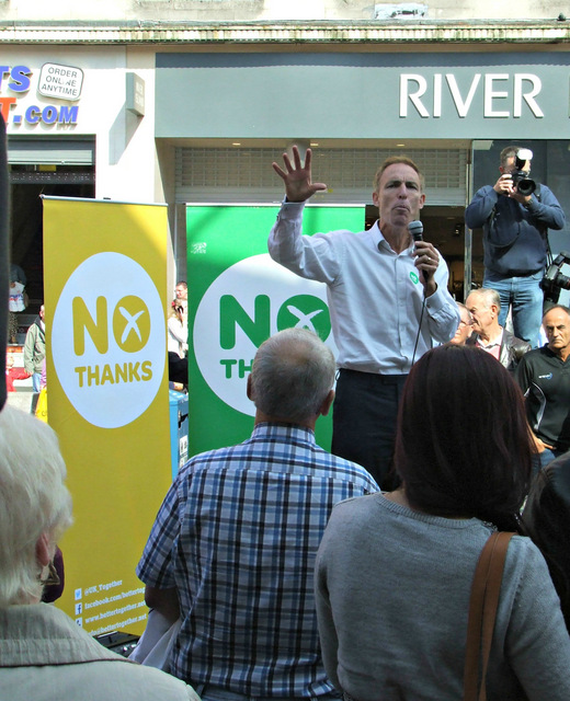 Jim Murphy MP is currently the Shadow Secretary of State for International Development. He is seen here standing on his Irn Bru crate amongst what appeared and sounded like a largely supportive audience of shoppers on Argyle Street. This was one of the 100 such stops being undertaken by Mr Murphy in the days leading up to the referendum on the 18th of September.